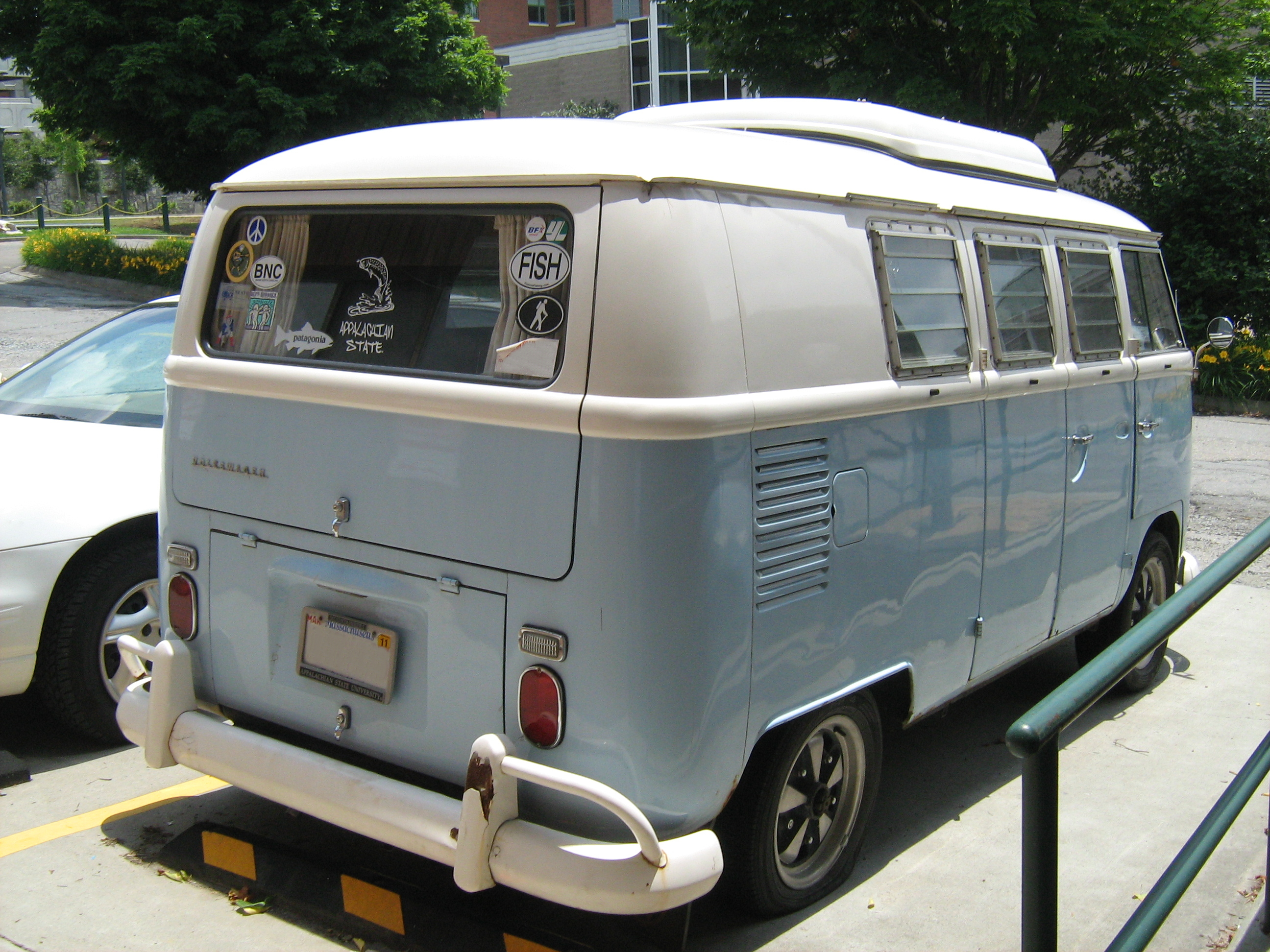 Volkswagen Westfalia Camper finished in blue and white.